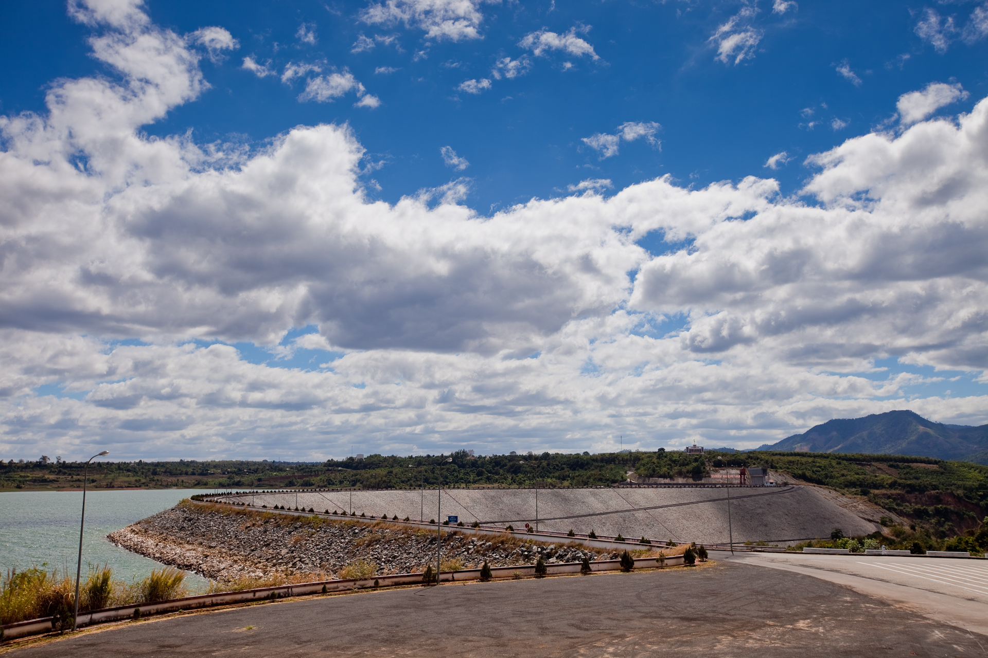 Yali Falls Dam in Gia Lai and Kon Tum provinces, VietnamTiếng Việt: Công ty Thủy điện Ialy